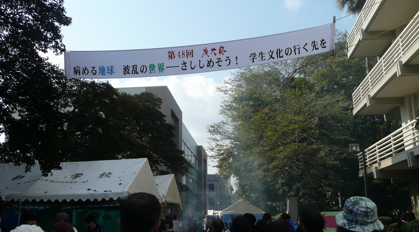 Kagoshima University Festival in 2008 (Kagoshima City, Japan)